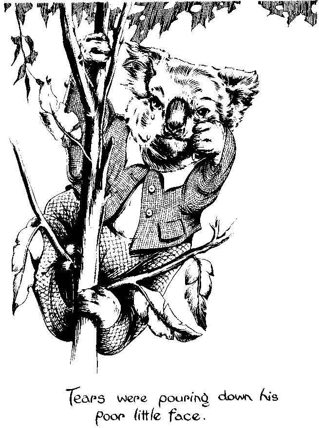 Blinky Bill, by Dorothy Wall (1894 - 1942)